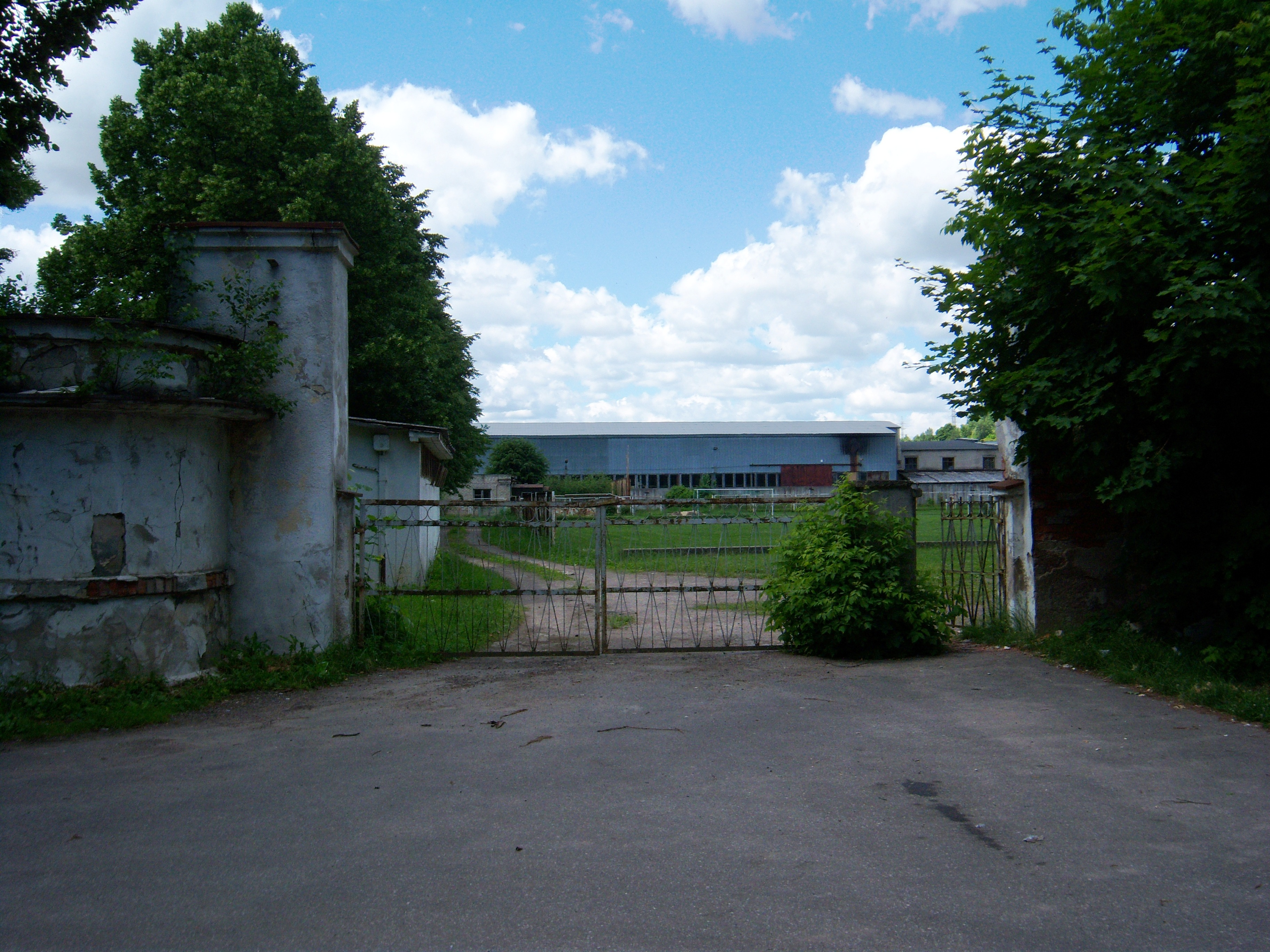 Football stadium of Inkaras, entry gates, Kaunas, Lithuania